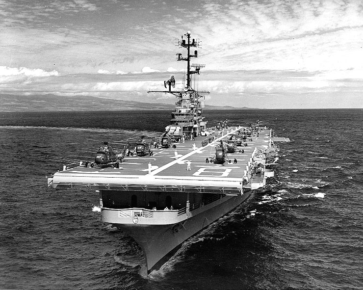 The U.S. Navy amphibious assault ship USS Valley Forge (LPH-8) underway in the Pacific Ocean, circa 1962-63, prior to her "FRAM II" overhaul. She has fifteen U.S. Marine Corps Sikorsky UH-34D helicopters spotted in take-off positions on her flight deck.